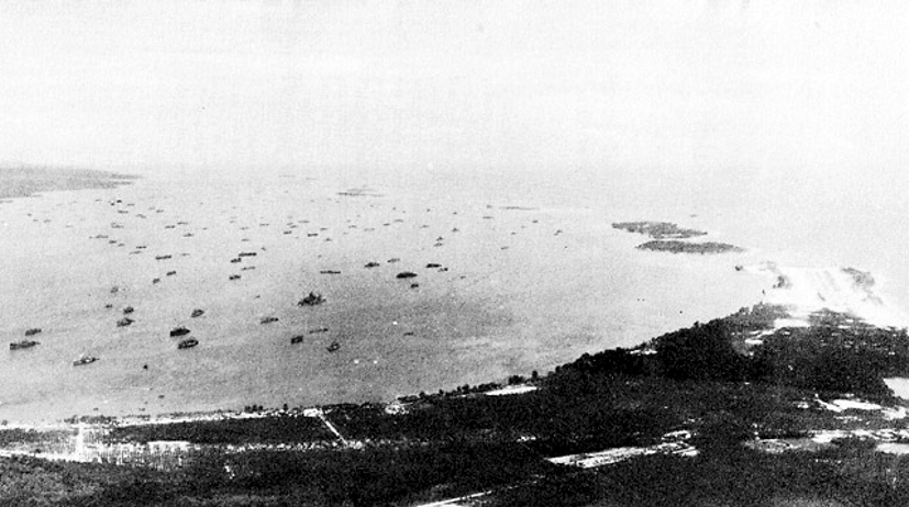 Ships in Seeadler Harbour, Manus Island, in the Admiralty Islands, circa in 1945. Los Negros island is in the foreground.